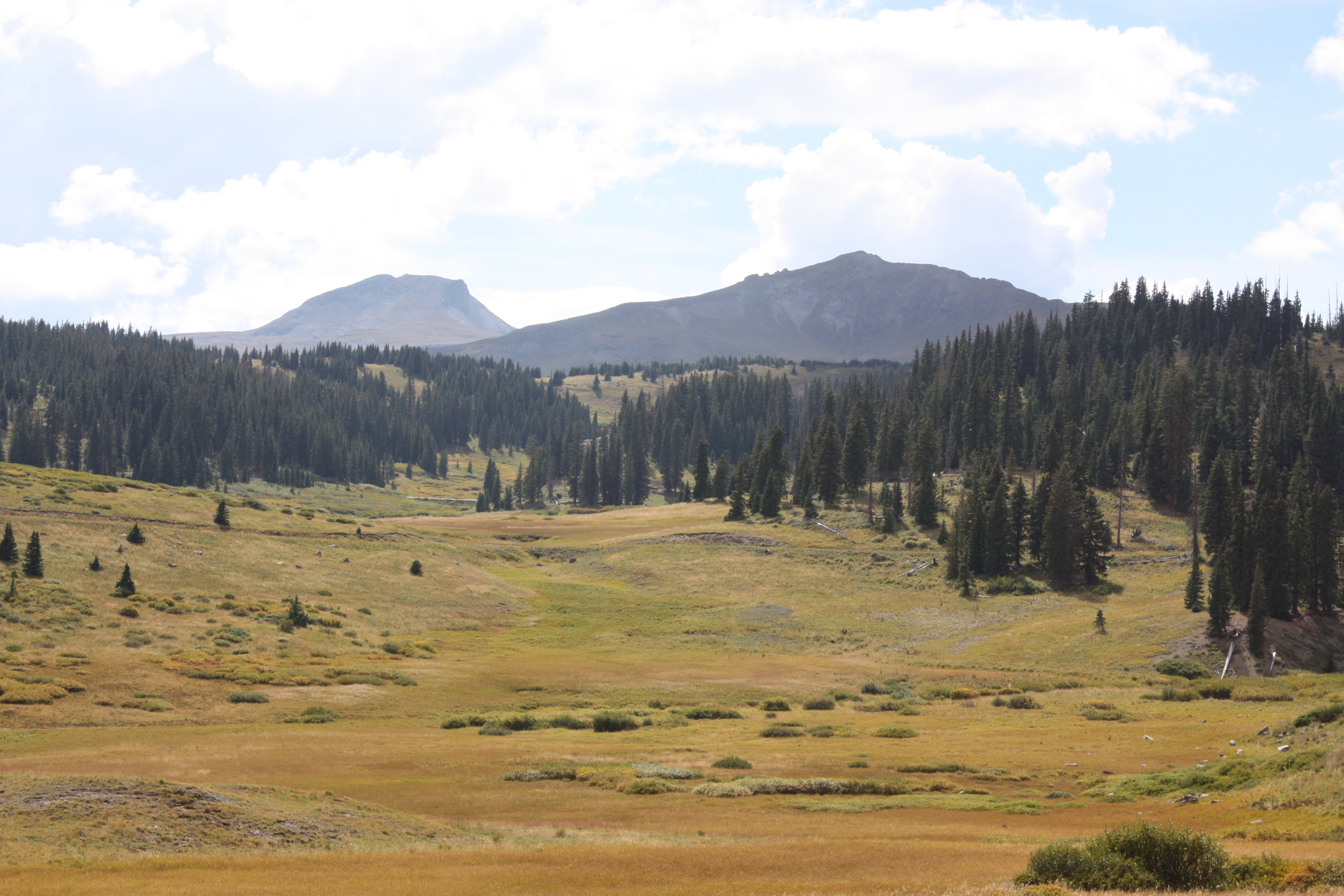 Mountains in Rio Grande National Forest in September of 2013.